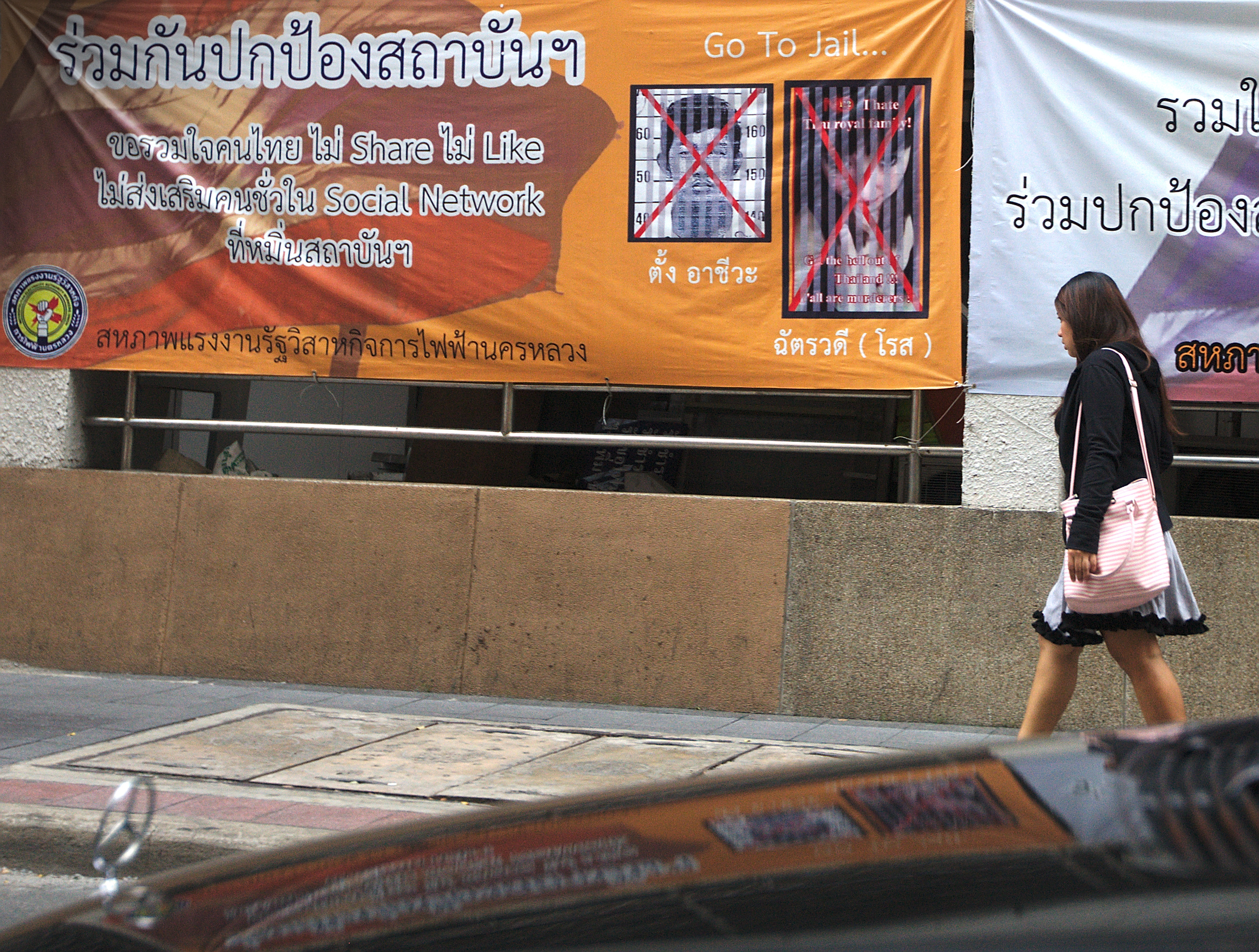 Banner instructing residents not to 'like' or 'share' non-mainstream views (that 'insult the institution', i.e. the monarchy) on social networks under direct threat of prison observed near Chit Lom, Bangkok, Thailand on 2014-06-30. The woman in the picture on the right is Chatwadee Amornpat, known as 'London Rose'.